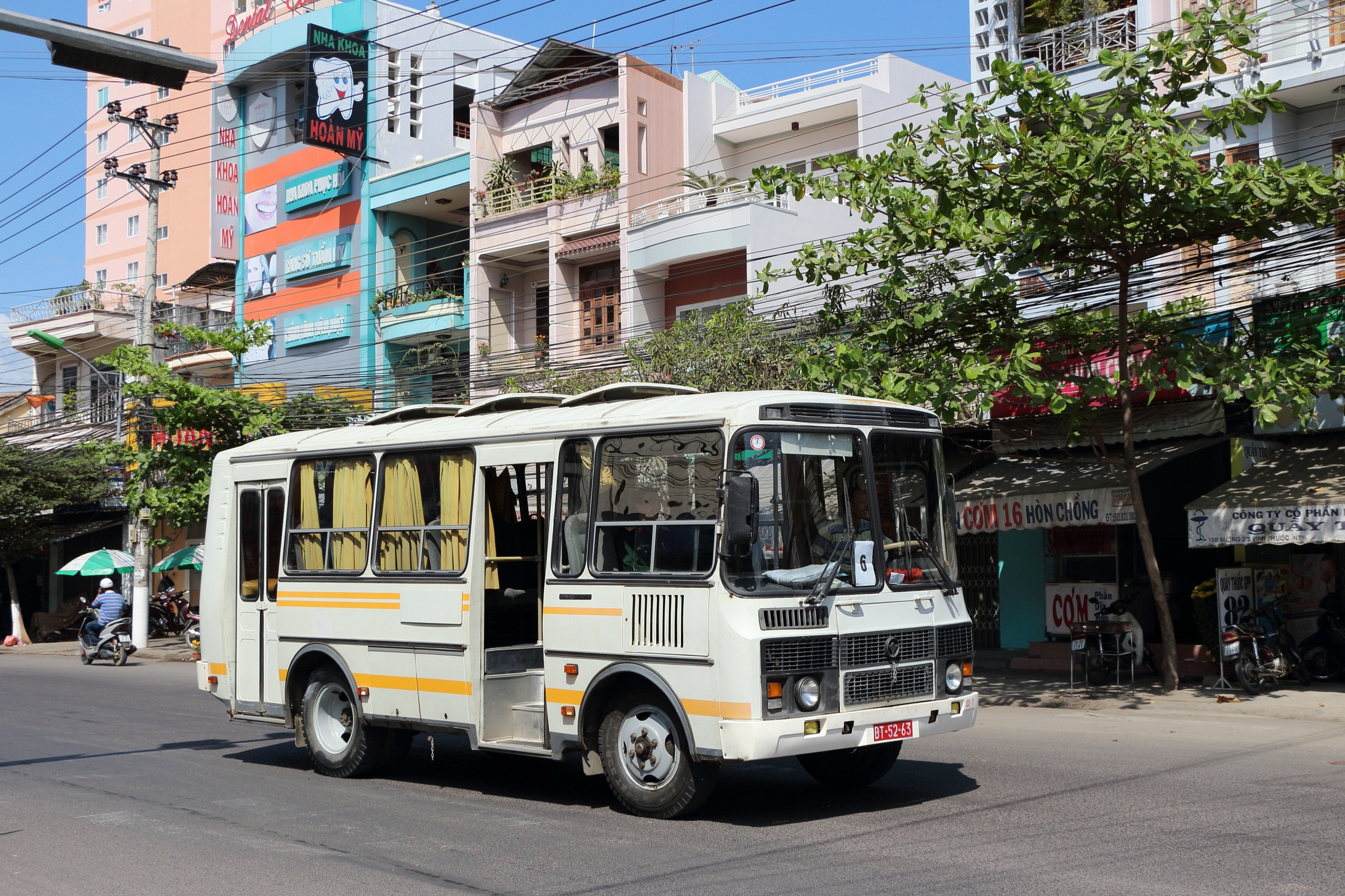 PAZ-32051 in Nha Trang, Vietnam